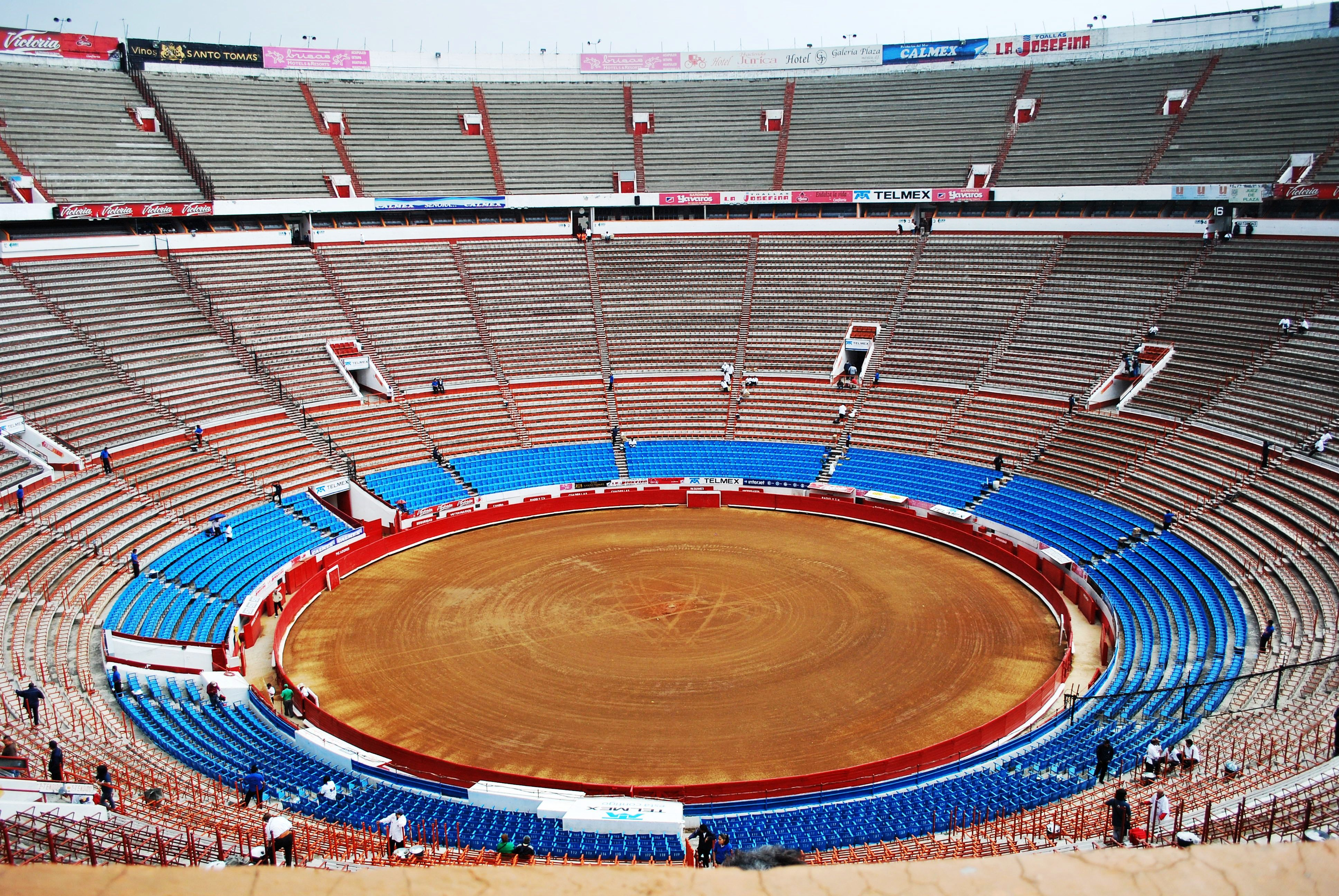 View of bullring from above at the Plaza de Toros in Mexico City